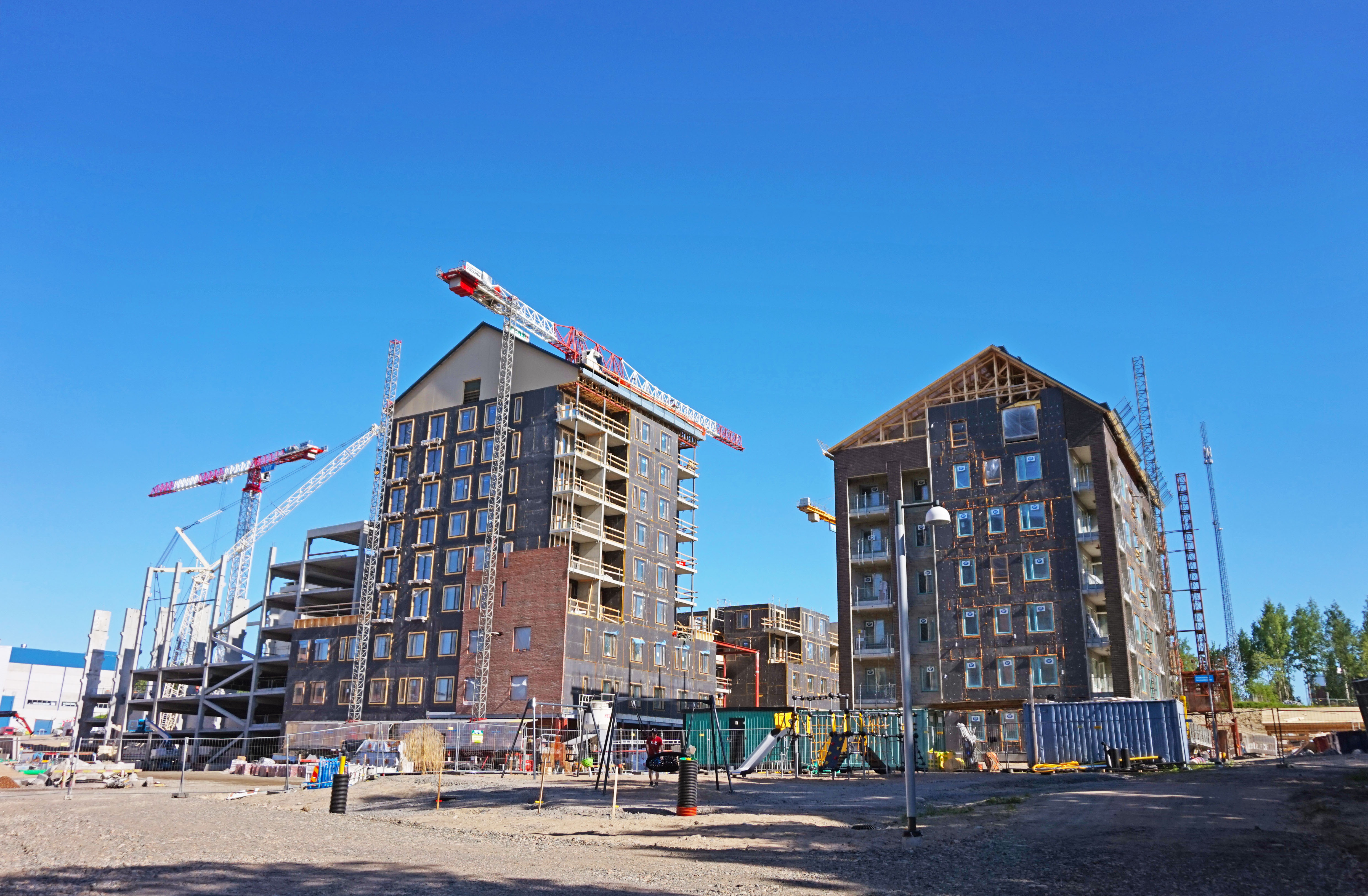 Buildings under construction on the Kangas subdistrict in Tourula district, Jyväskylä